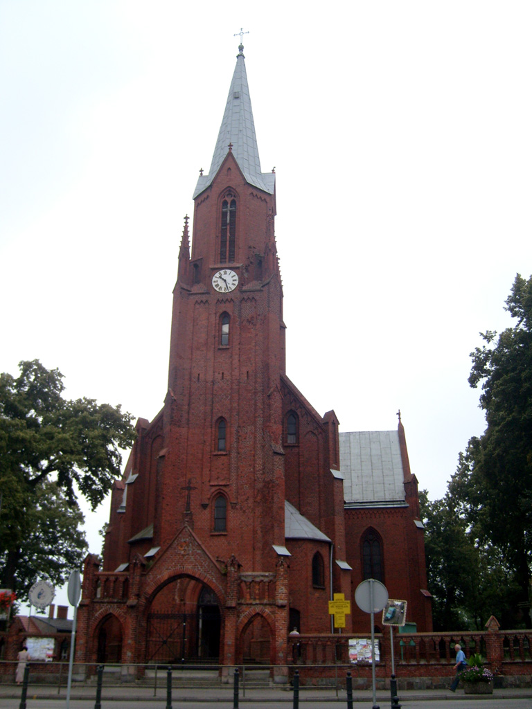 The church in Wałcz, Poland